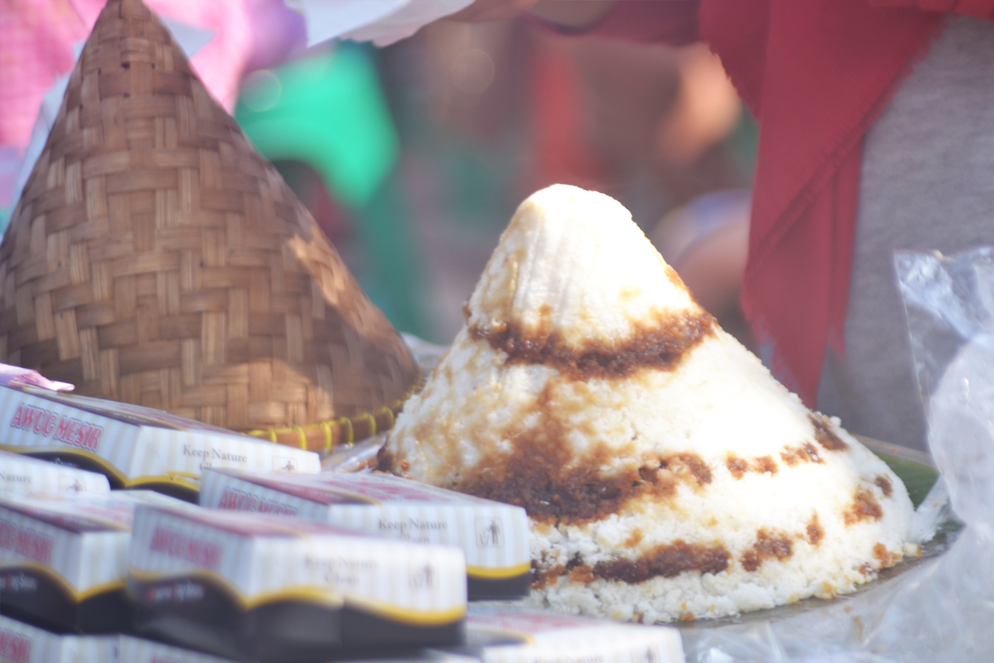 Dodongkal atau Dongkal makanan khas Sunda atau kue tradisional Indonesia, yang terbuat dari bahan dasar tepung beras, gula merah, dan kelapa. Di beberapa daerah, dodongkal dikenal juga dengan sebutan awug.